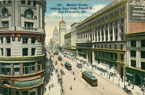 Market Street, San Francisco, from postcard, 1st decade of 20th century. At the near left, the Flood Building at Powell Street. One of San Francisco's most famous department stores, The Emporium, is to the right. While that store failed in the late 20th century the site is now remodeled. The building containing the viewpoint no longer exists as it was removed to create space for Hallidie Plaza (named after Andrew Smith Hallidie, an open space pit entrance to the Powell Street BART/Muni station.